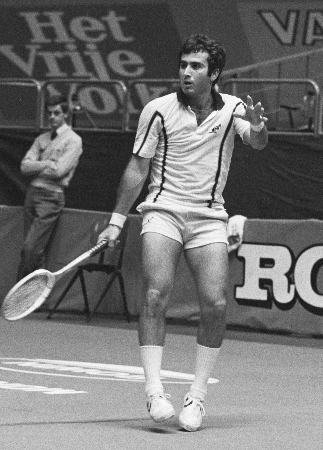 American tennis player Eddie Dibbs in the final of the Roxy Tennis Round Robin exhibition in Rotterdam versus Bjorn Borg